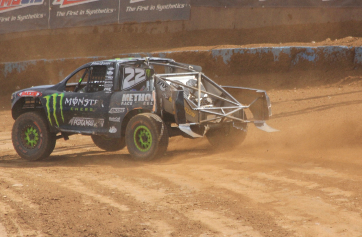 The Pro 4 TORC trophy truck of Johnny Greaves at Crandon International Off-Road Raceway.